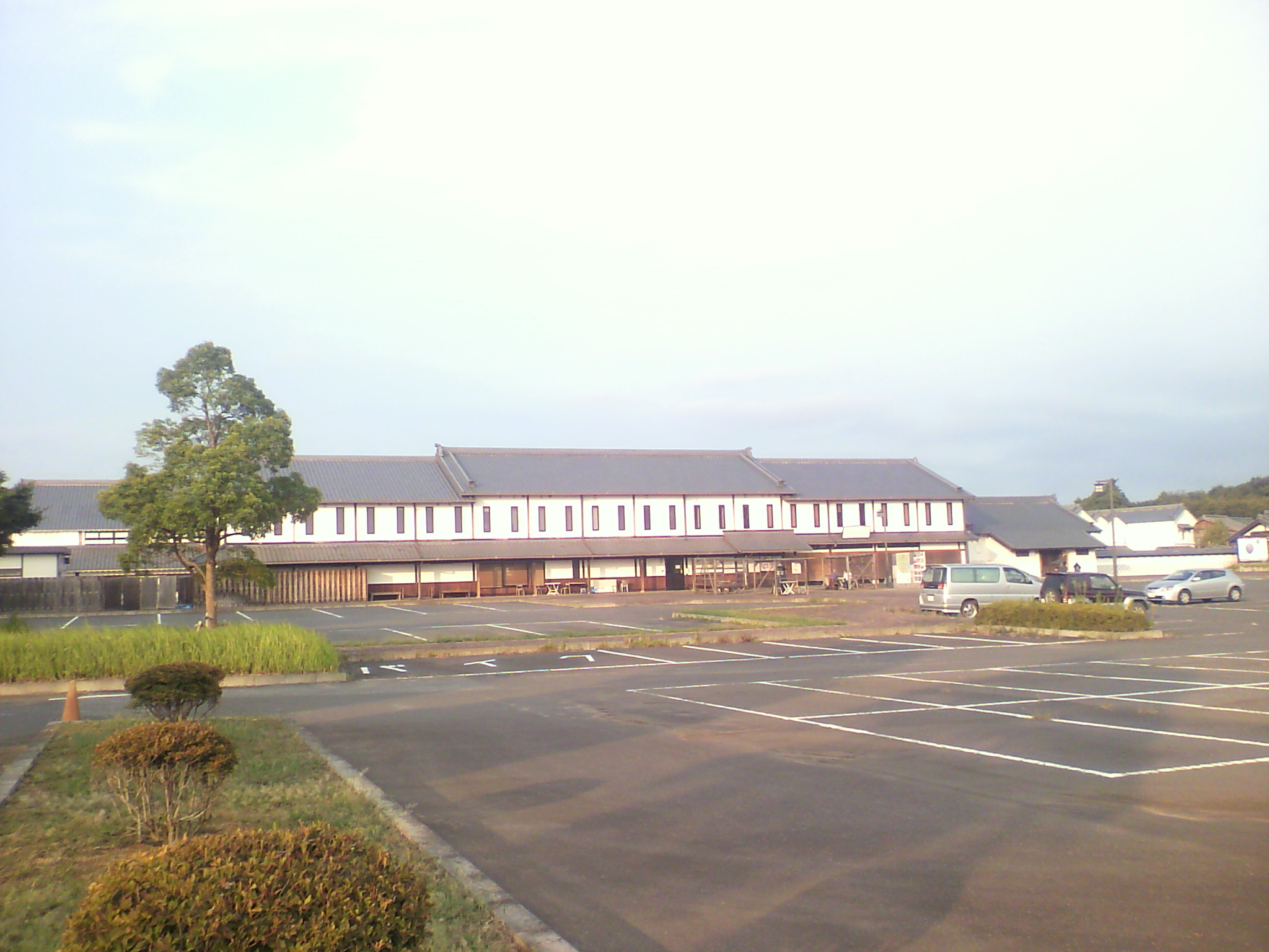 This is the Warp Station Edo, which is located in Tsukubamirai, Ibaraki, Japan. This is used for location of Jidaigeki.